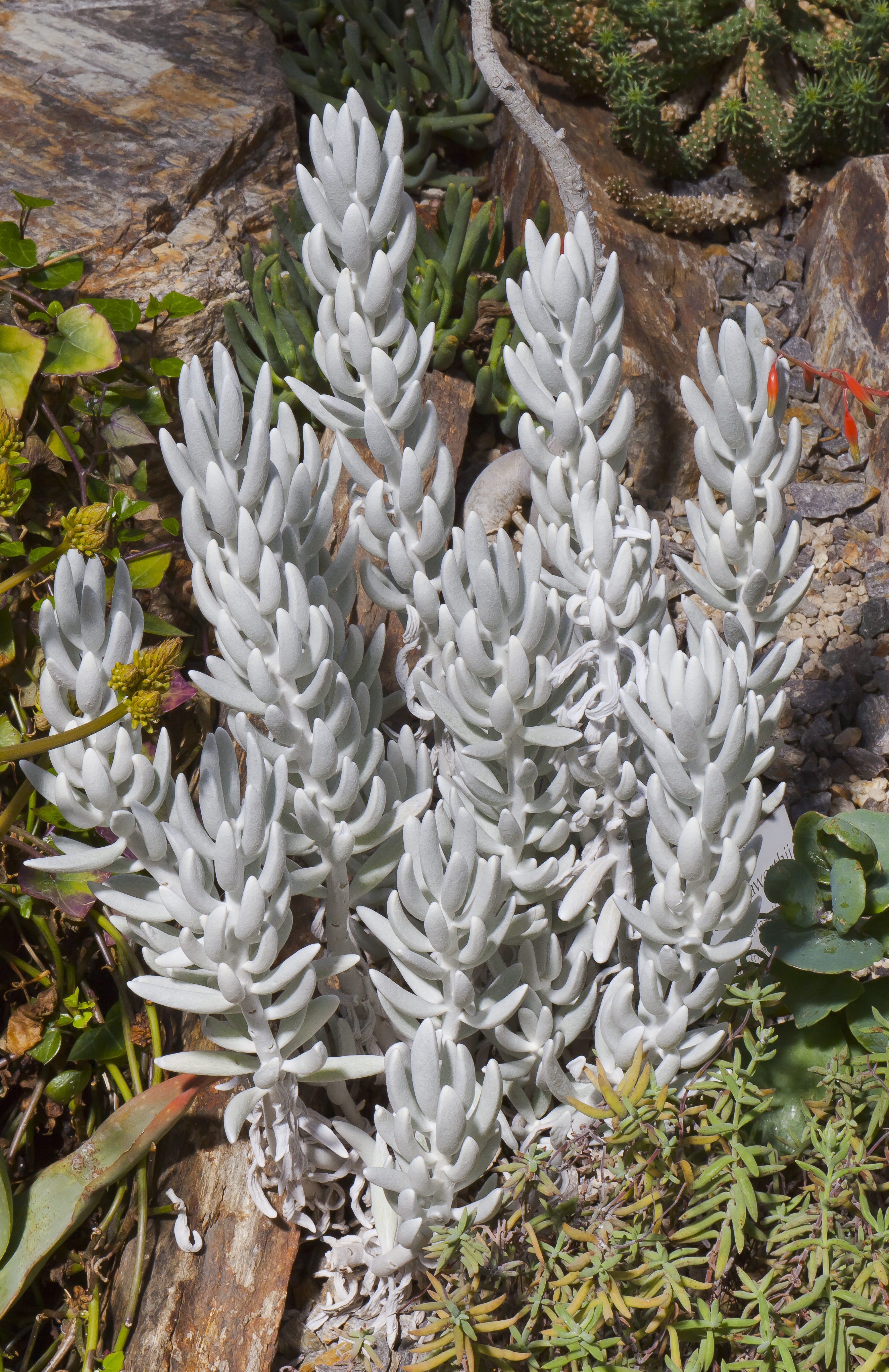 Senecio haworthii, Botanic Garden, Munich, Germany.